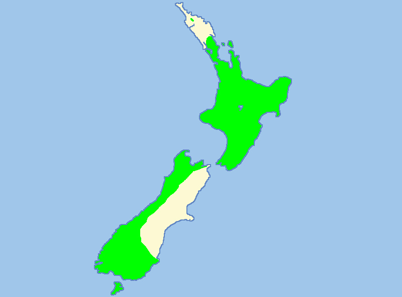 Distribution map of Metrosideros umbellata (Southern Rātā) in New Zealand. The North Island distribution is much more localised and scattered than this map suggests - it is quite a rare tree there, occuring on occasional mountain tops. The map also omits the southern end of the range in the subantarctic islands to the south of the South Island.